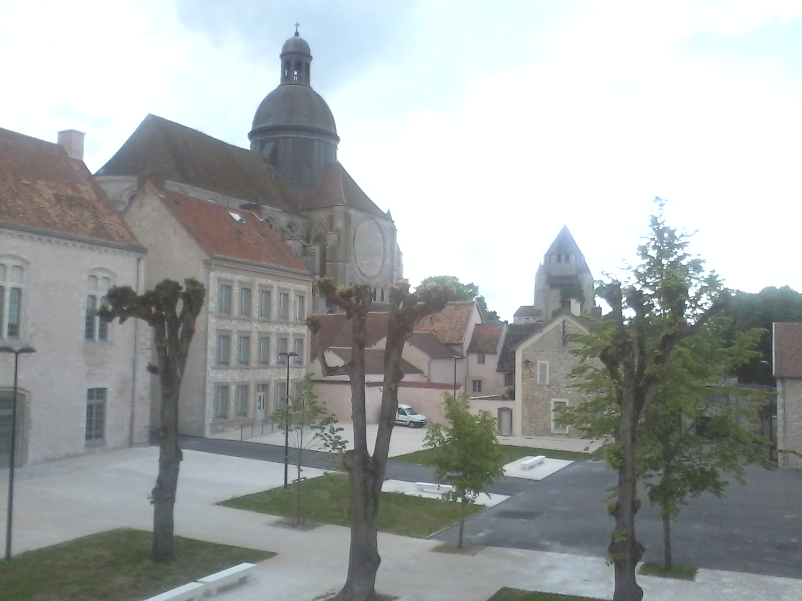 View of the Lycée Thibaut de Champagne from the administrative building. Shows the collégiale St Quiriace and the Tour César.